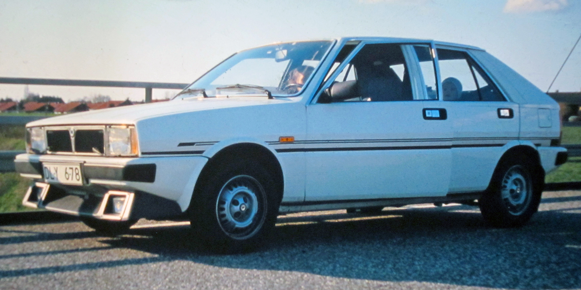 A 1981 SAAB-Lancia 600 in southern Sweden. My sister and mom can be glimpsed inside the car, which is equipped with various dealer-installed "goodies". The headlamp wipers are required on cars sold in Sweden.